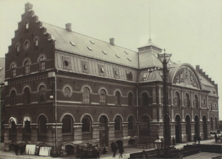 Frilagerbygningen (The Free Storage Building) in Copenhagen